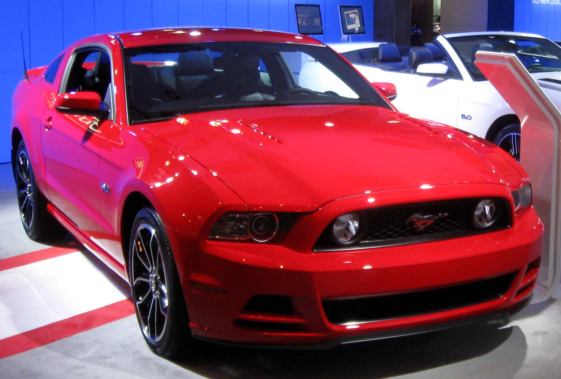 2013 Ford Mustang photographed at the 2012 New York International Auto Show.